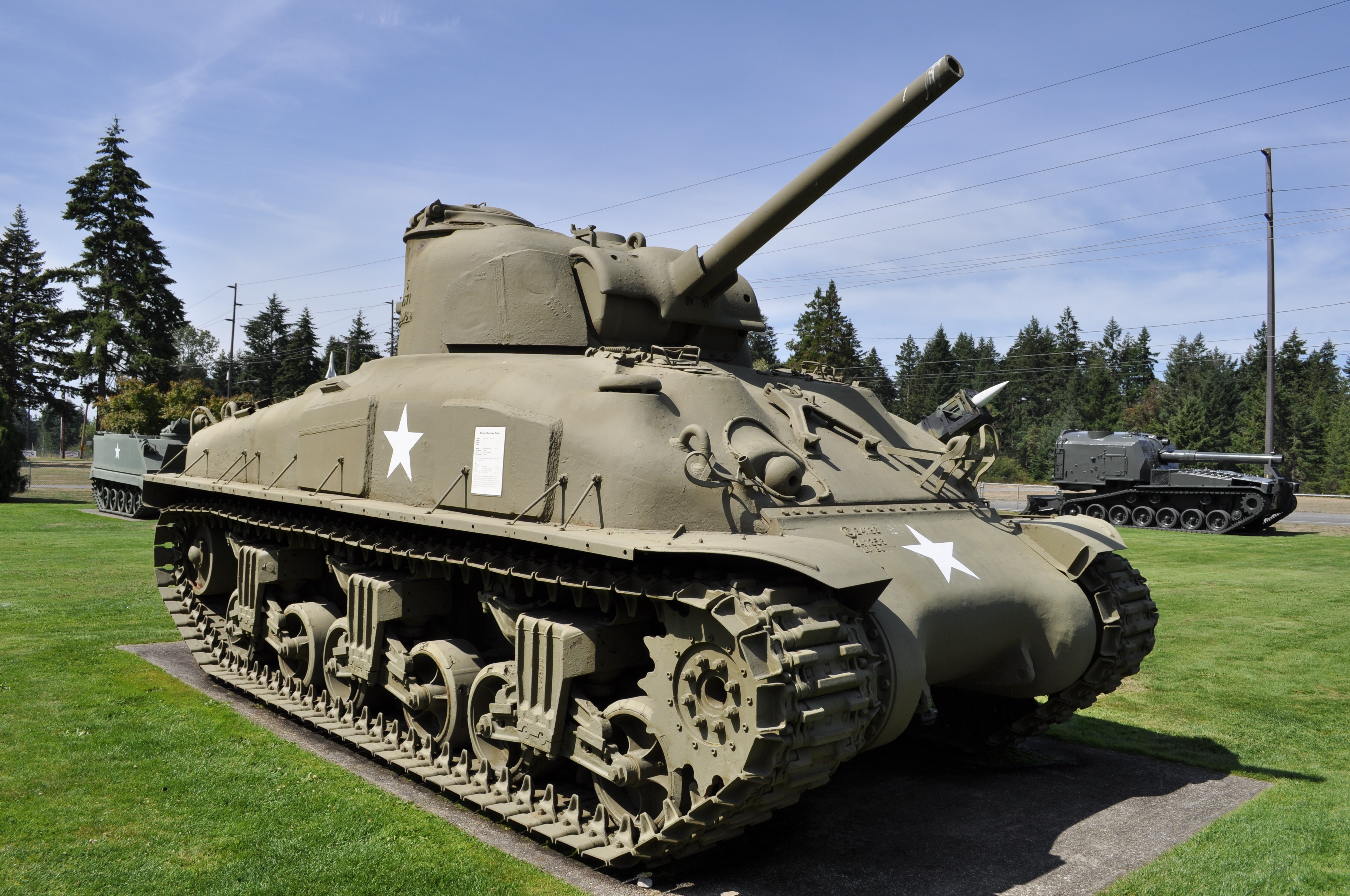 M-4A1 Sherman Tank, Fort Lewis Military Museum, Fort Lewis, Washington, USA.